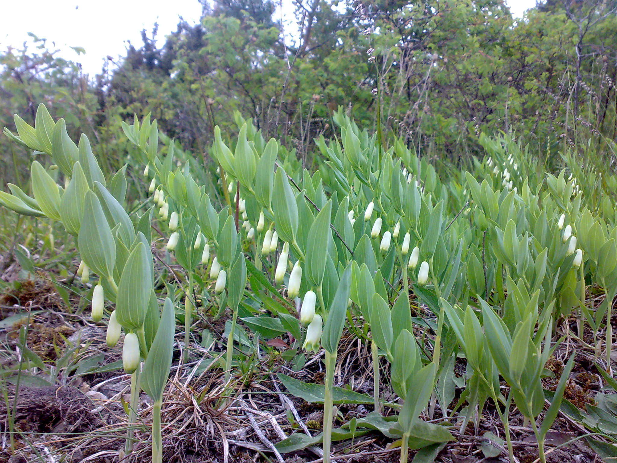 Polygonatum odoratum var. odoratum Kantkonvall